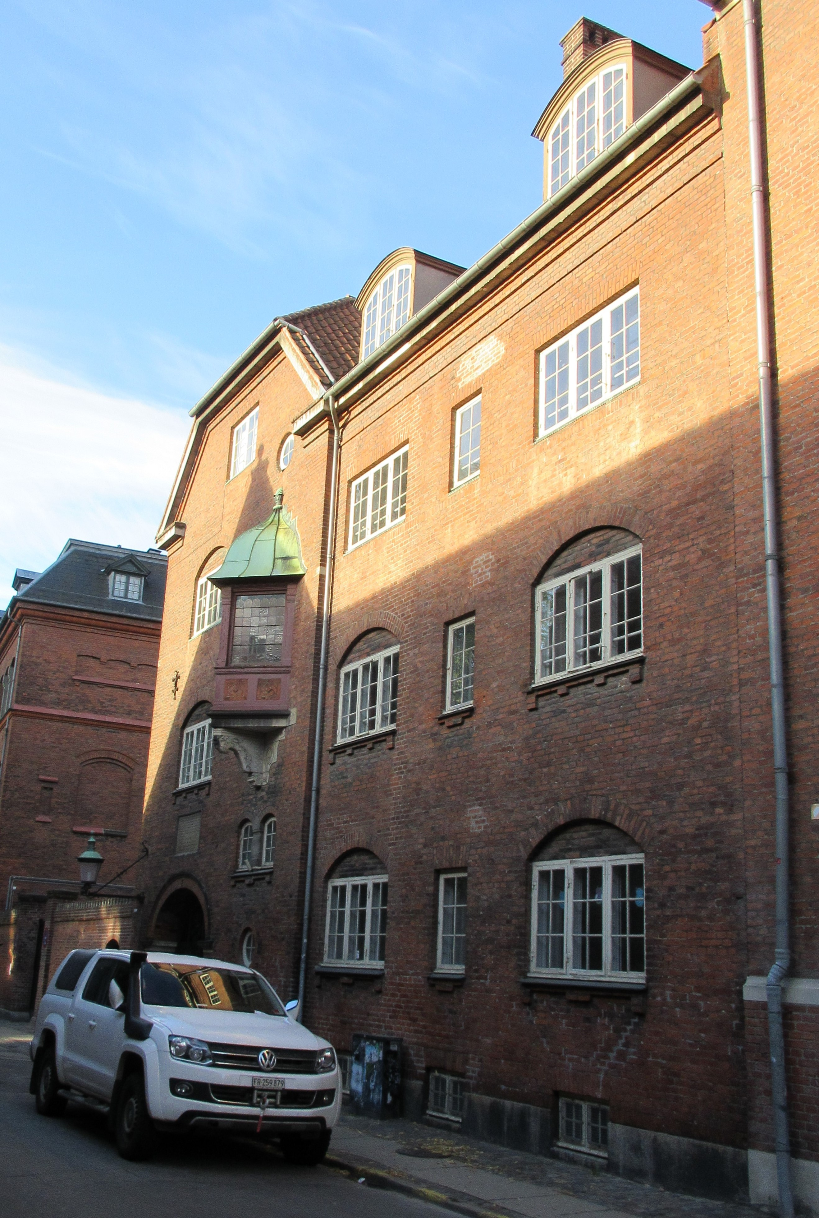 Sankt Petri Plejehus, Thymes og Pelts Stiftelse at Larslejsstræde 7 in Copenahgen, Denmark